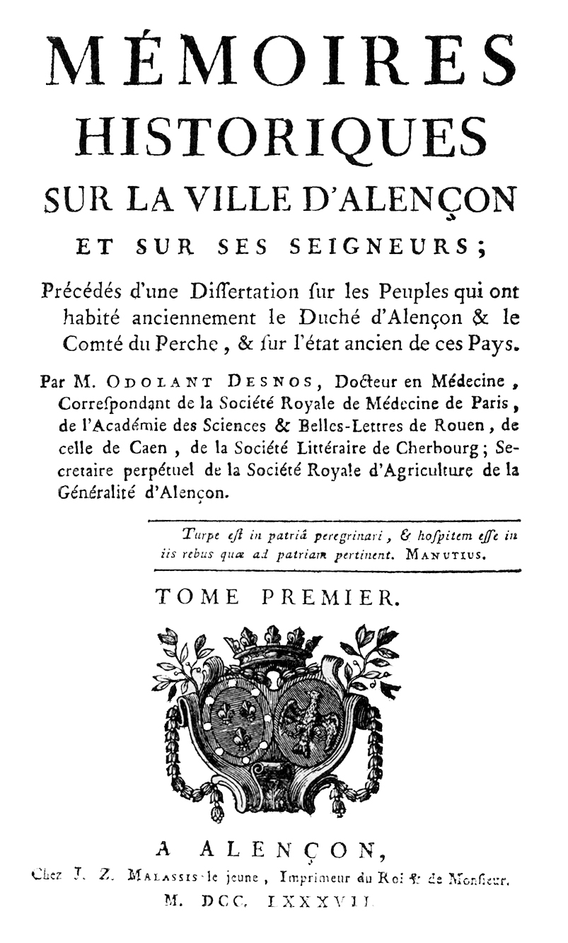 Title page of Pierre-Joseph Odolant-Desnos' Mémoires historiques sur la ville d'Alençon.